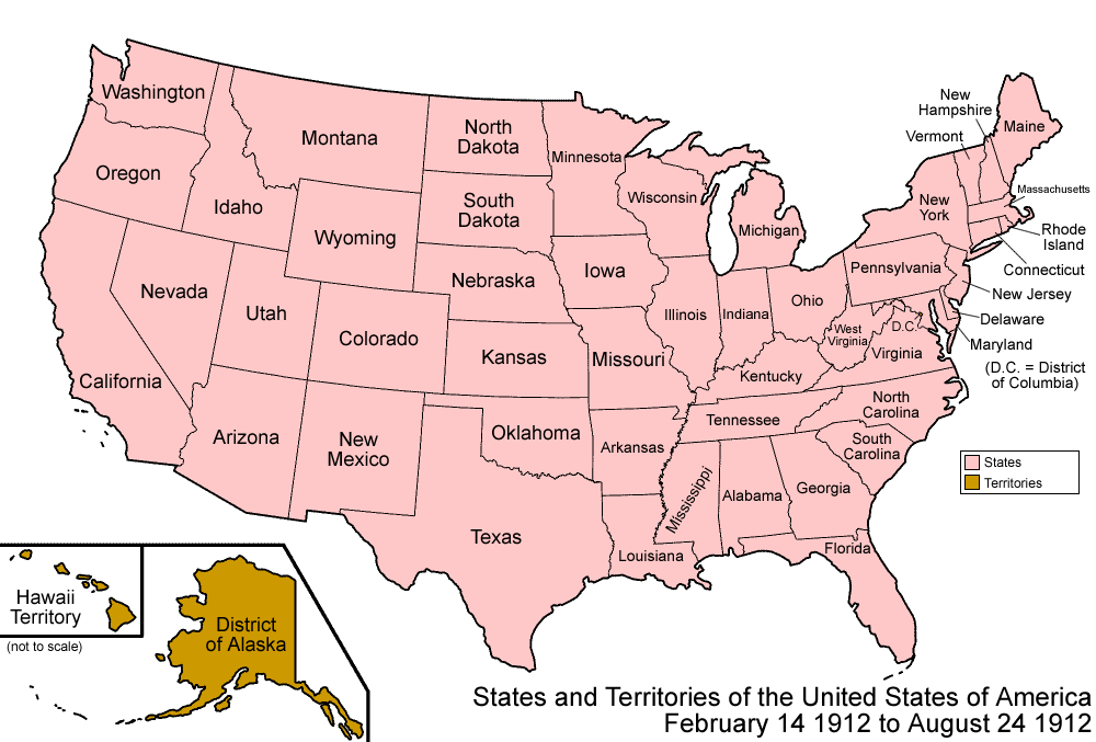 Map of the states and territories of the United States as it was from Febriary 1912 to August 1912. On February 14 1912, Arizona Territory was admitted as the state of Arizona. On August 24 1912, the District of Alaska was organized as Alaska Territory.